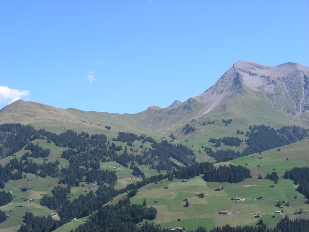 Overview Obersteg Zuhäligen Albrist